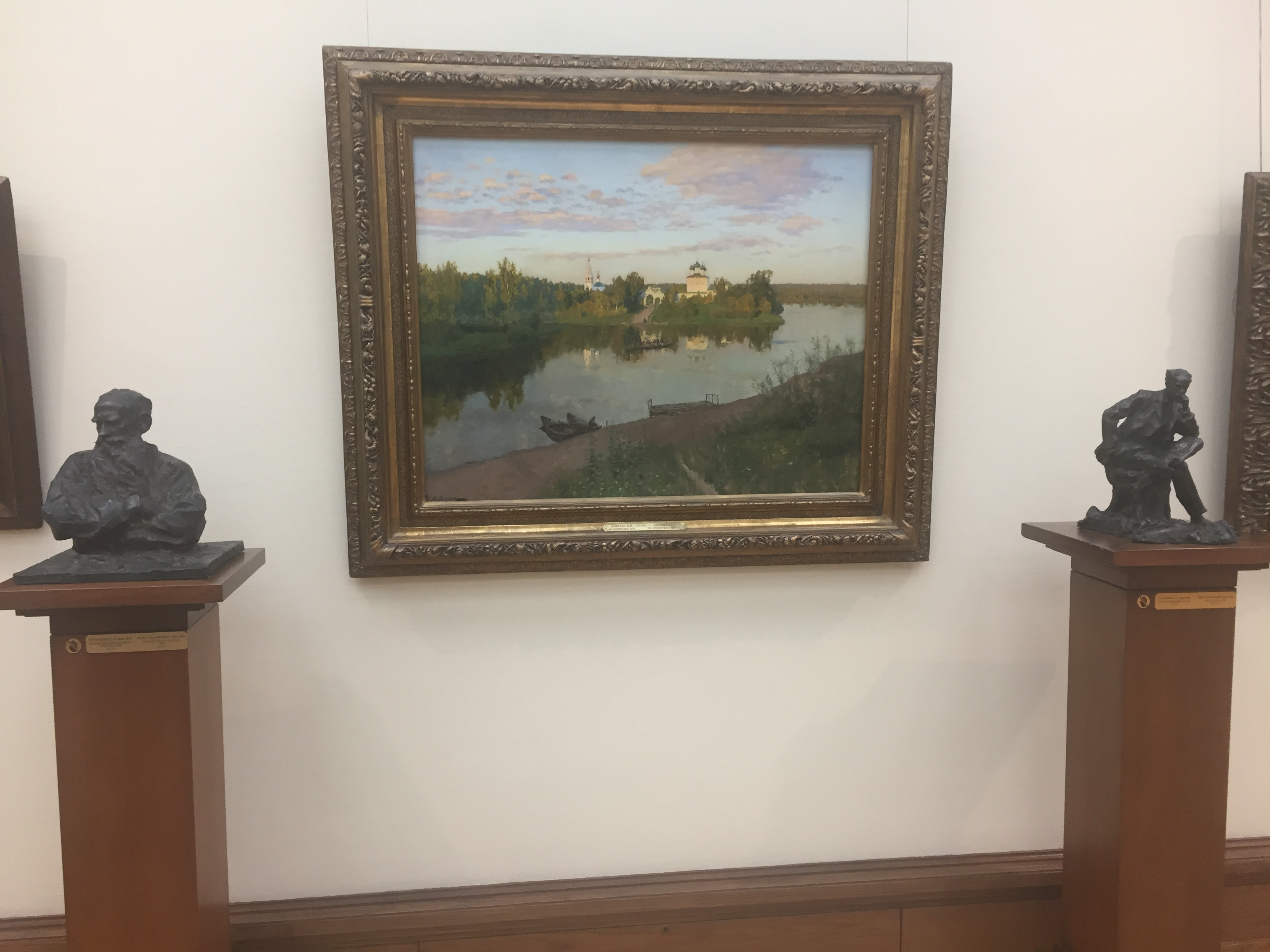 Evening bells (painting by Isaac Levitan, 1892) in the State Tretyakov Gallery